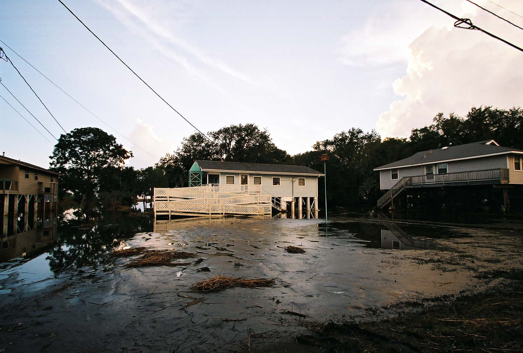 Point-Aux-Chenes, LA, October 7, 2002 -- This small fishing community was hit hard by a seven foot tidal surge that accompanied Hurricane Lili. Several homes in this community are elevated and did not receive the damage that the other homes did. Photo by Bob McMillan/ FEMA News Photo